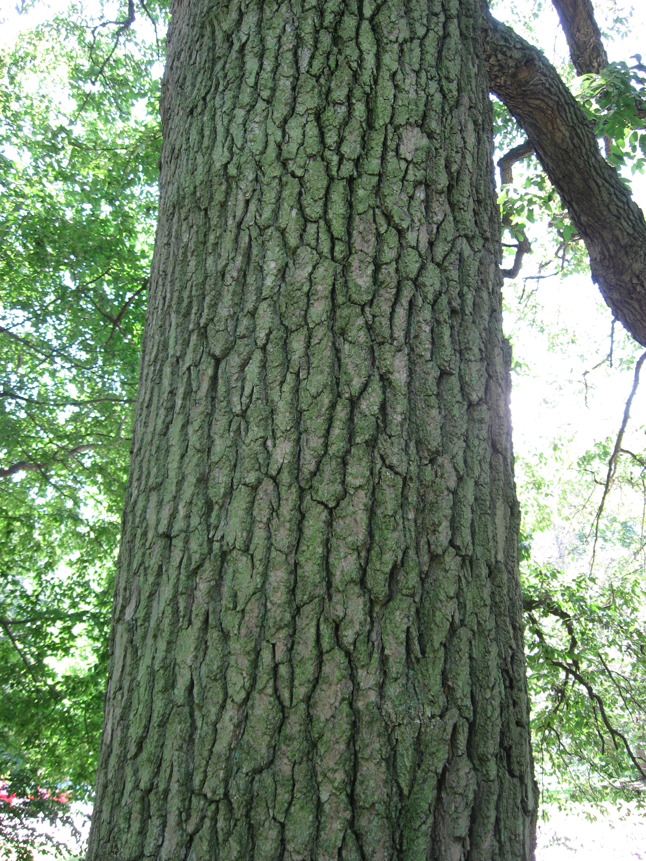 A picture of the trunk of Nyssa sylvatica.